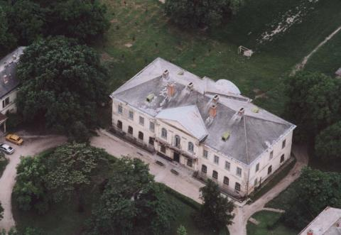 Perkáta, Hungary, aerialphotography (Dőry Mansion) This is a photo of a monument in Hungary, Identifier: 3746